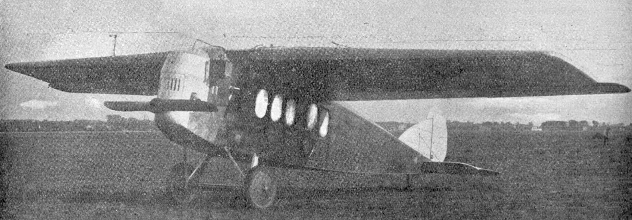 Albatros L 57 photo from L'Aerophile October,1922